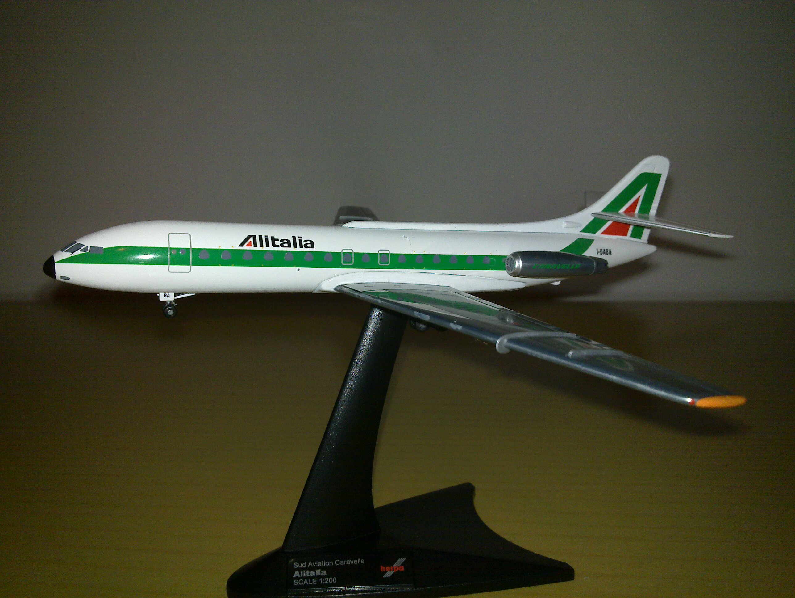 Mock Metal Herpa, scale 1:200, of the Sud Aviation Caravelle in Alitalia livery I-DABA